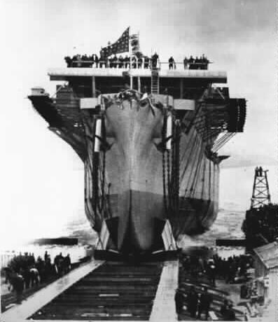 Launch of USS Cowpens (CVL-25) on Jan 17, 1943.